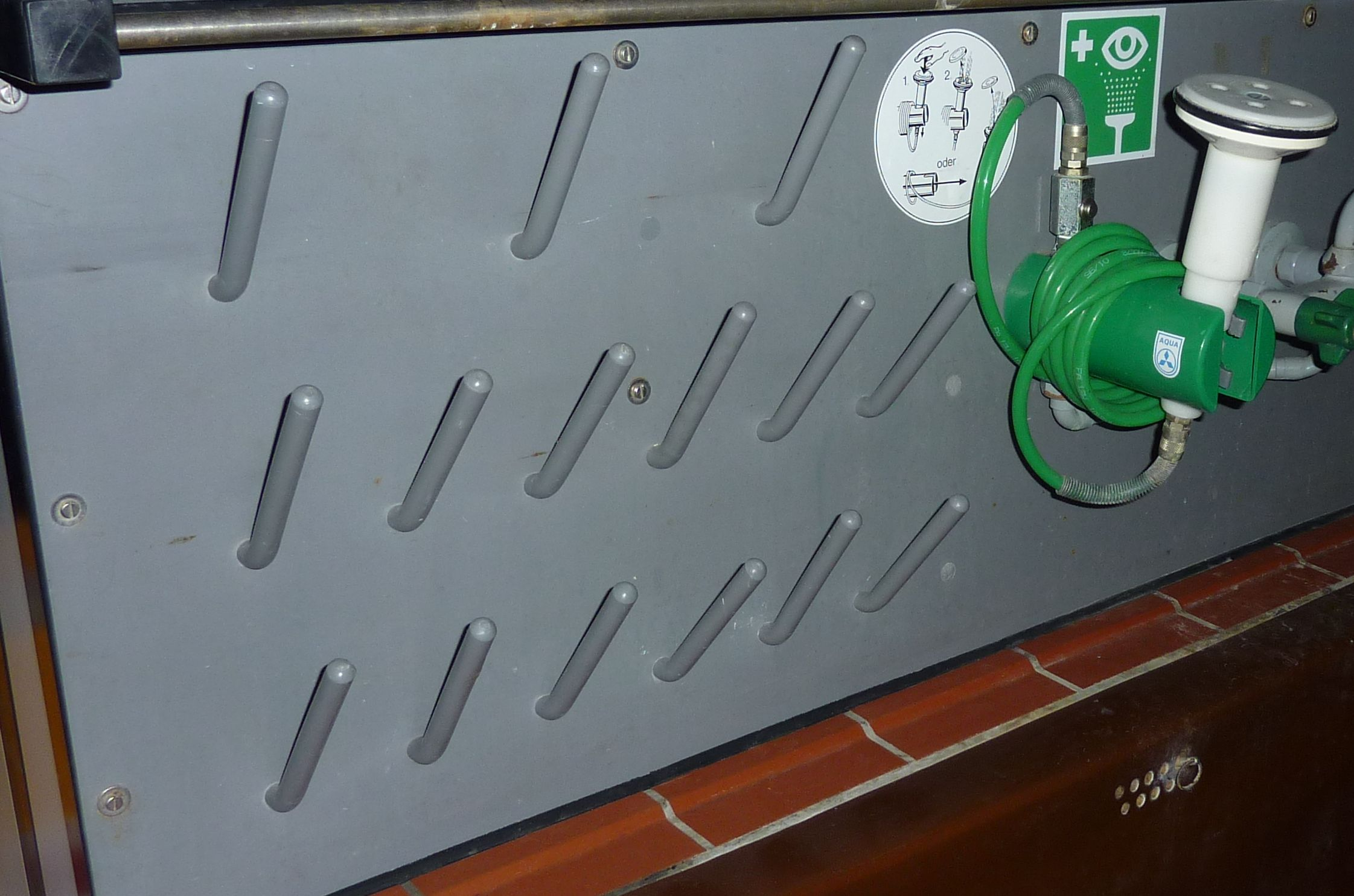 Drying station for laboratory glassware